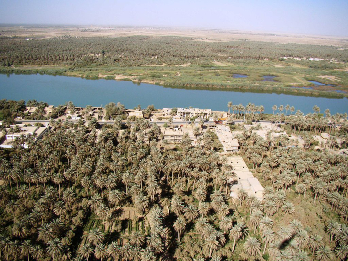 A bird's eye view of the mighty Tigris River in Iraq. The Tigris feeds much needed water to Iraq giving life to everything that it touches.